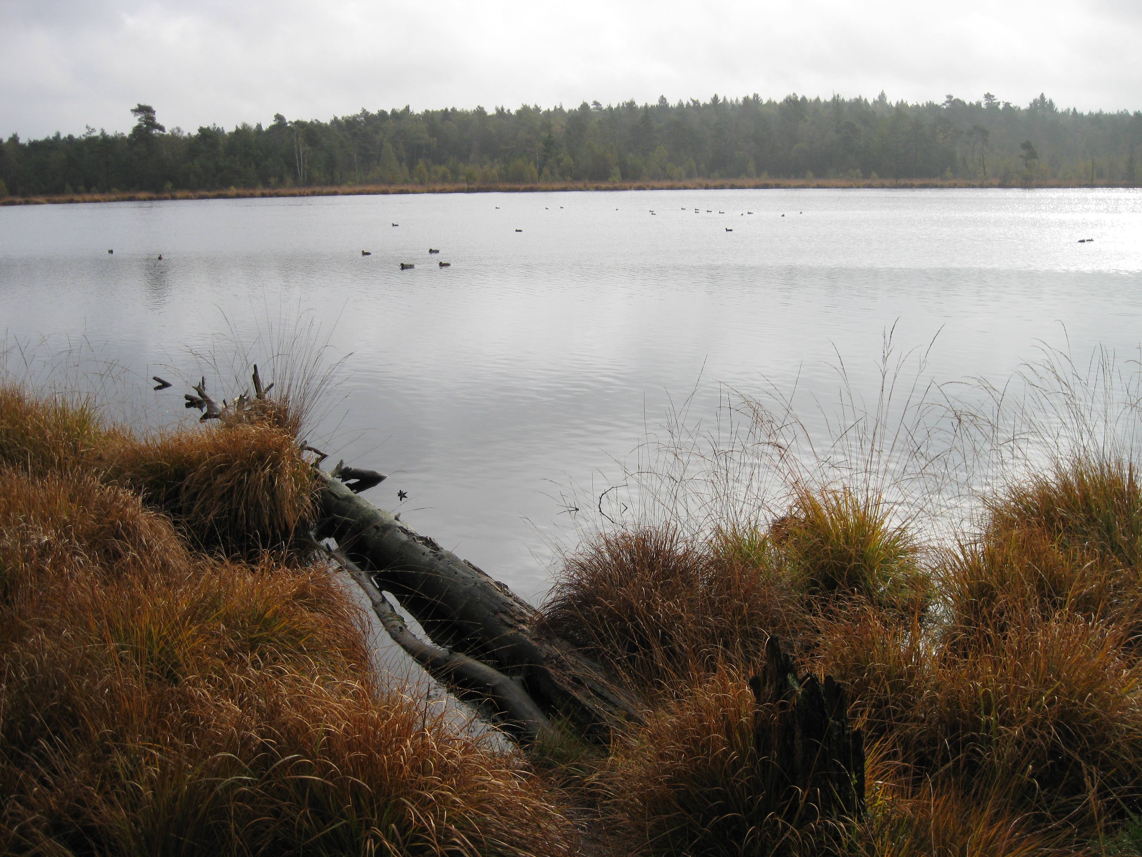 Grundloser See in Grundloses Moor nature reserve, Germany